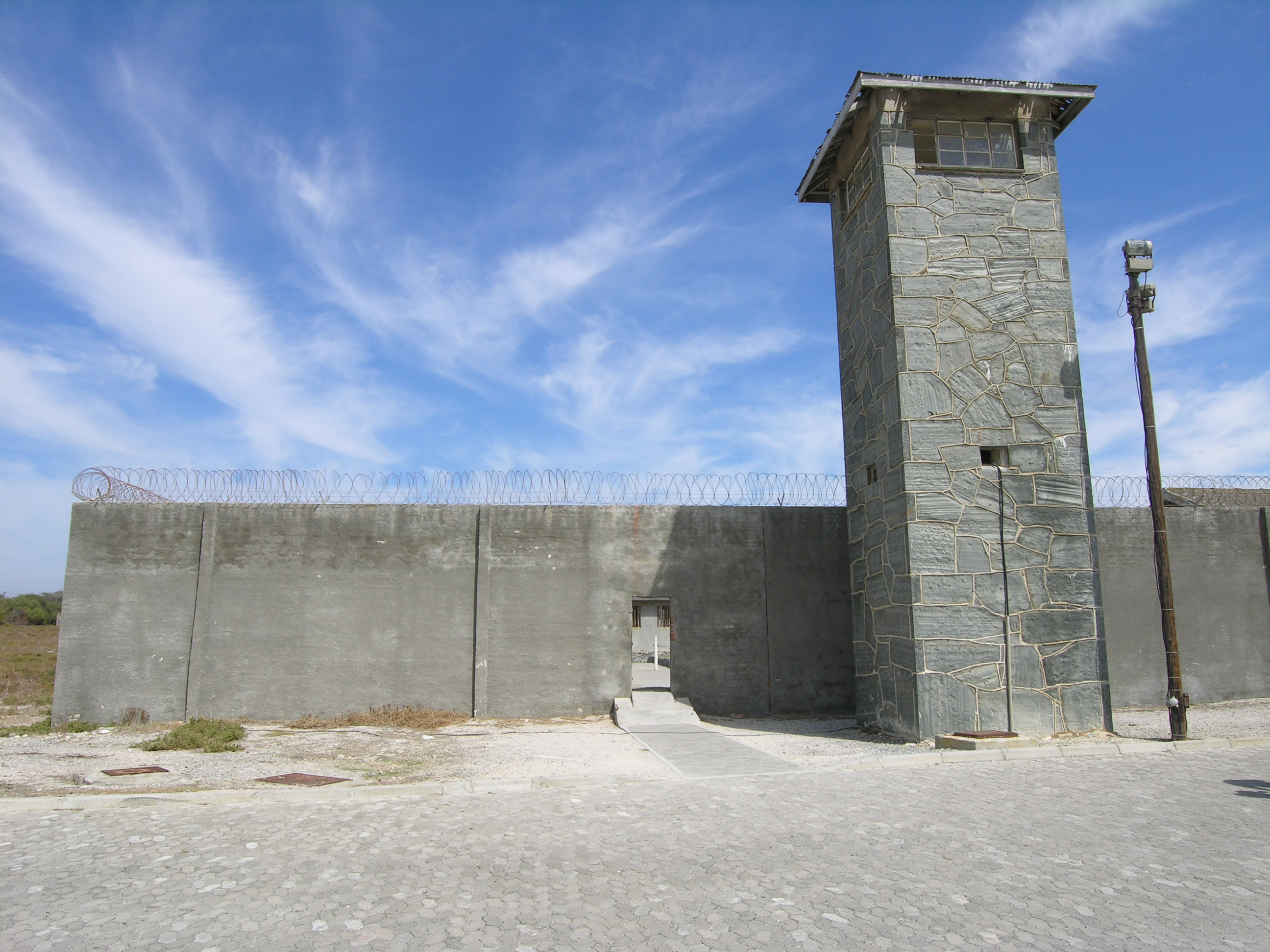 Robben Island (South Africa)